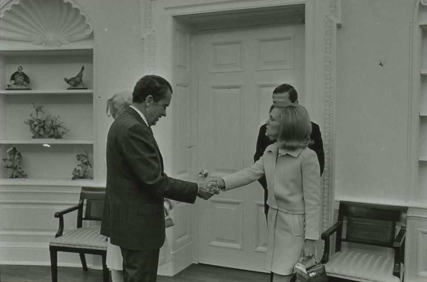 Frame(s): WHPO-6180-04-05, President Nixon shaking hands with Barbara Franklin. 4/29/1971, Washington, D.C., White House, Oval Office.